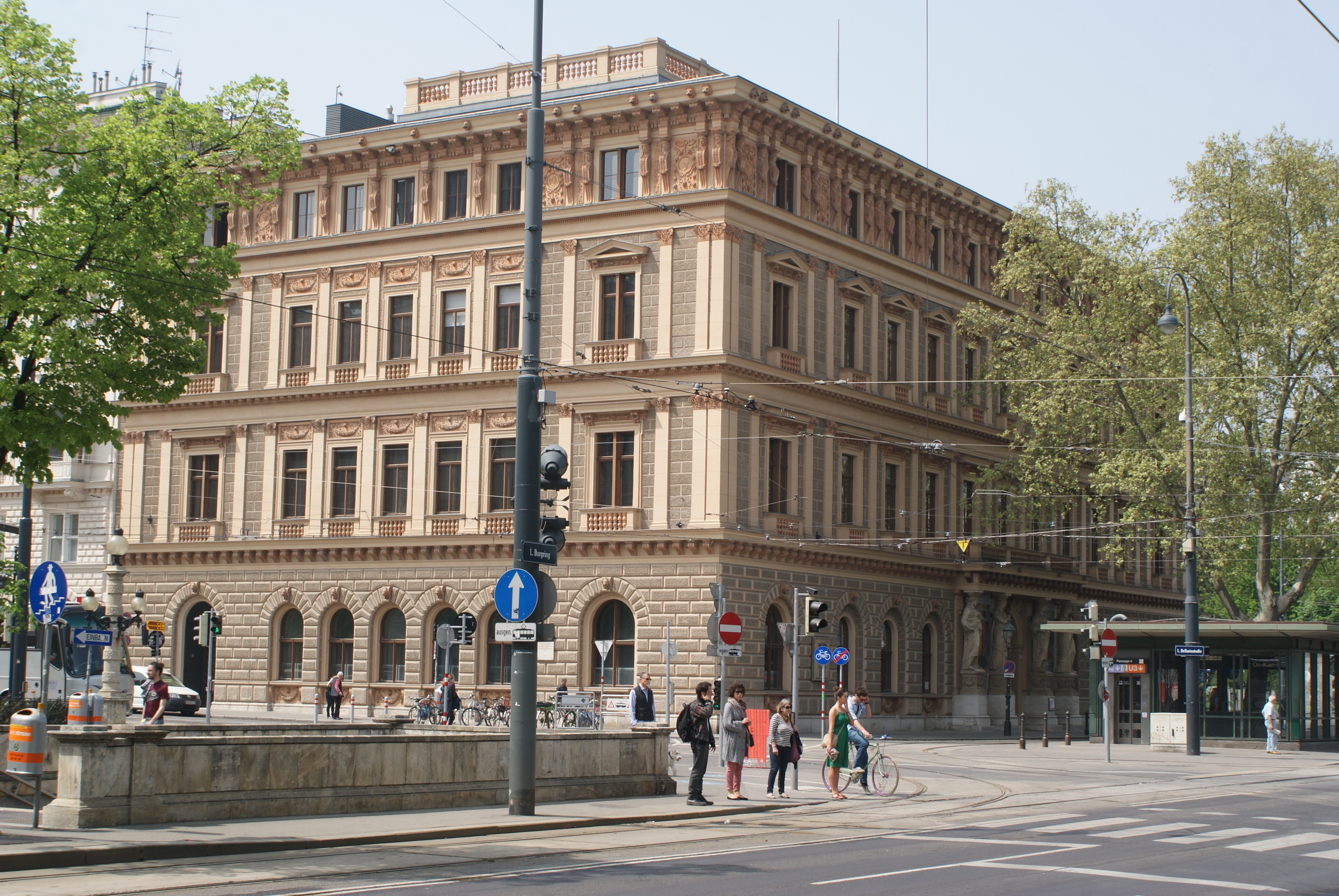 Vienna buildings